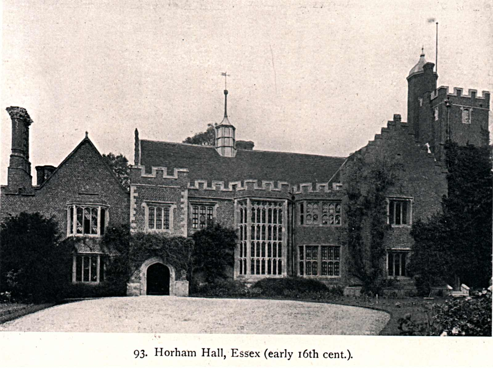 Horham Hall, Manor House in Essex, England Taken from Liam's Pictures from Old Books Published in 1909 as The Growth of the English House by J. Alfred Gotch, London